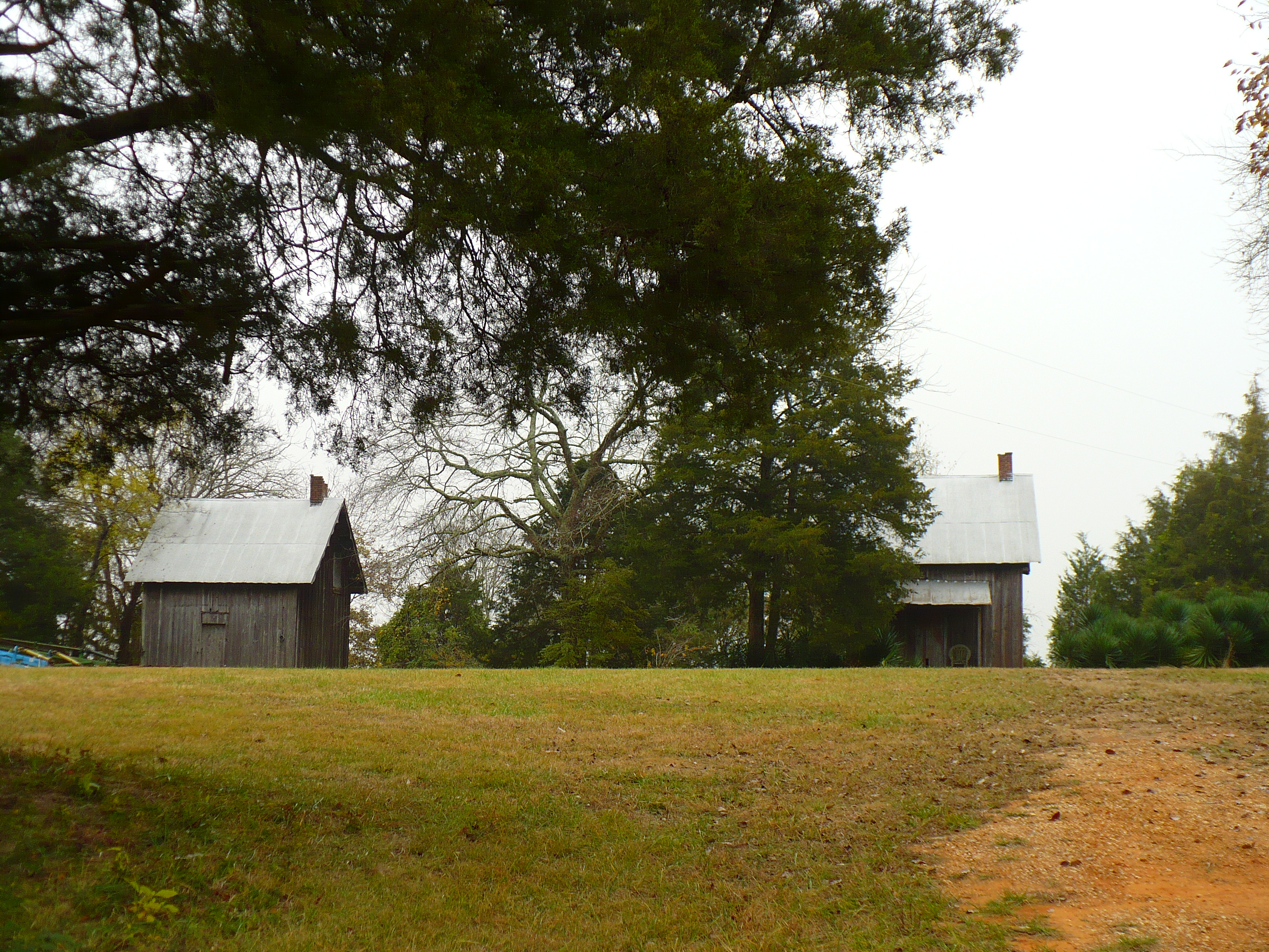 Faunsdale Plantation's Gothic Revival slave quarters near Faunsdale, Marengo County, Alabama.